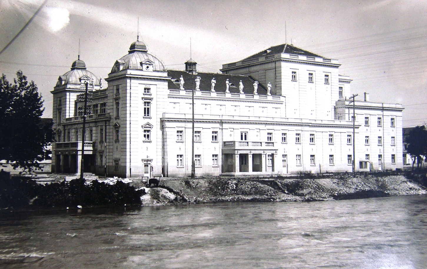 Historical images of Skopje: National Theatre. This media file is produced by Wikipedian in Residence in Category:Wikipedian in Residence at DARM in 2016.